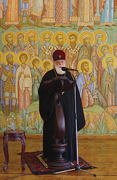 Ilia II, the current Catholicos-Patriarch of All Georgia.